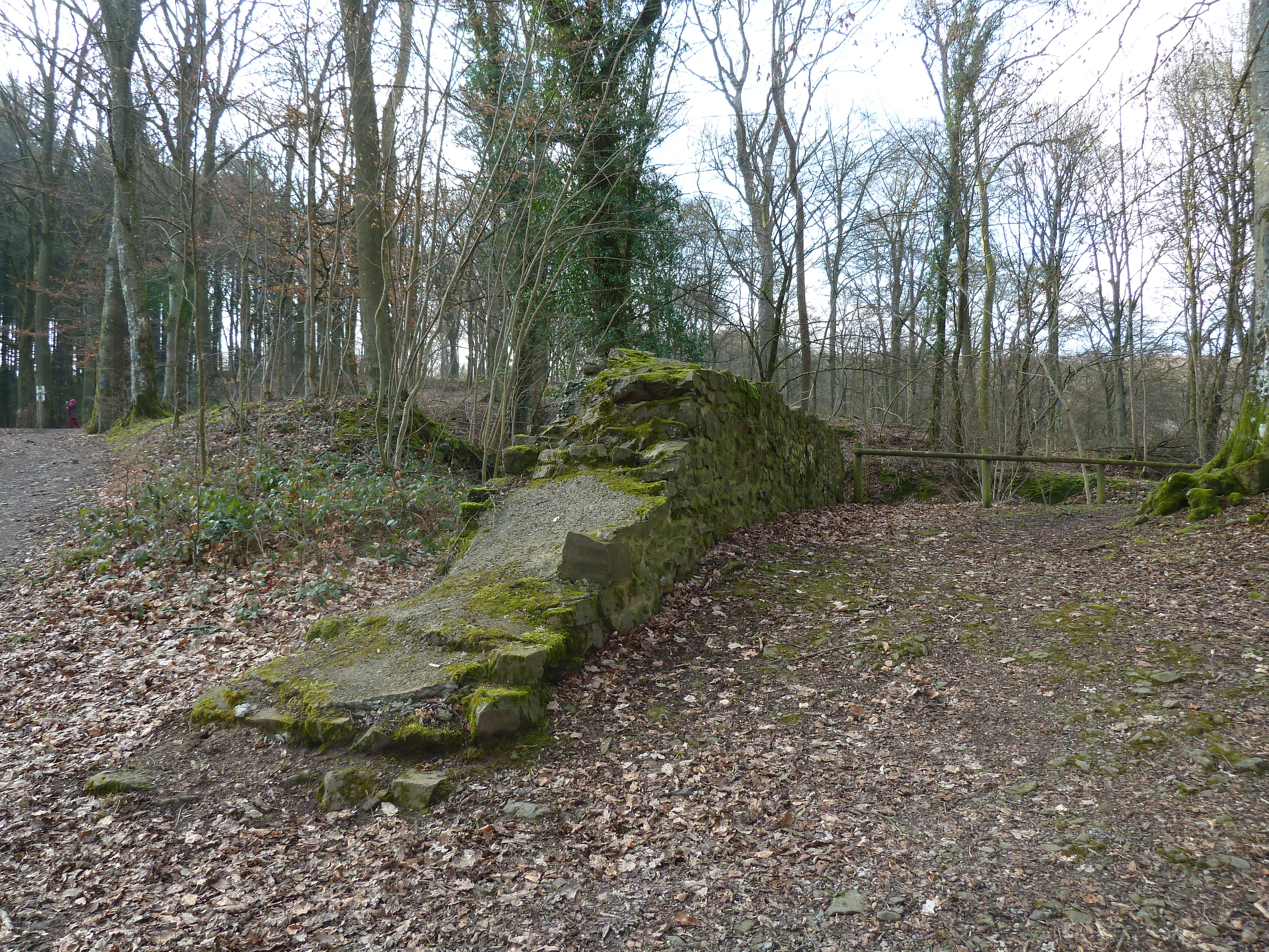 Hermitage and chapel of Saint-Thibaut, Marcourt, Rendeux, Belgium